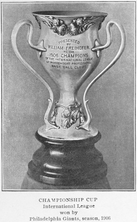 A photo of the trophy awarded to the champions of the International League of Independent Professional Base Ball Clubs in 1906.